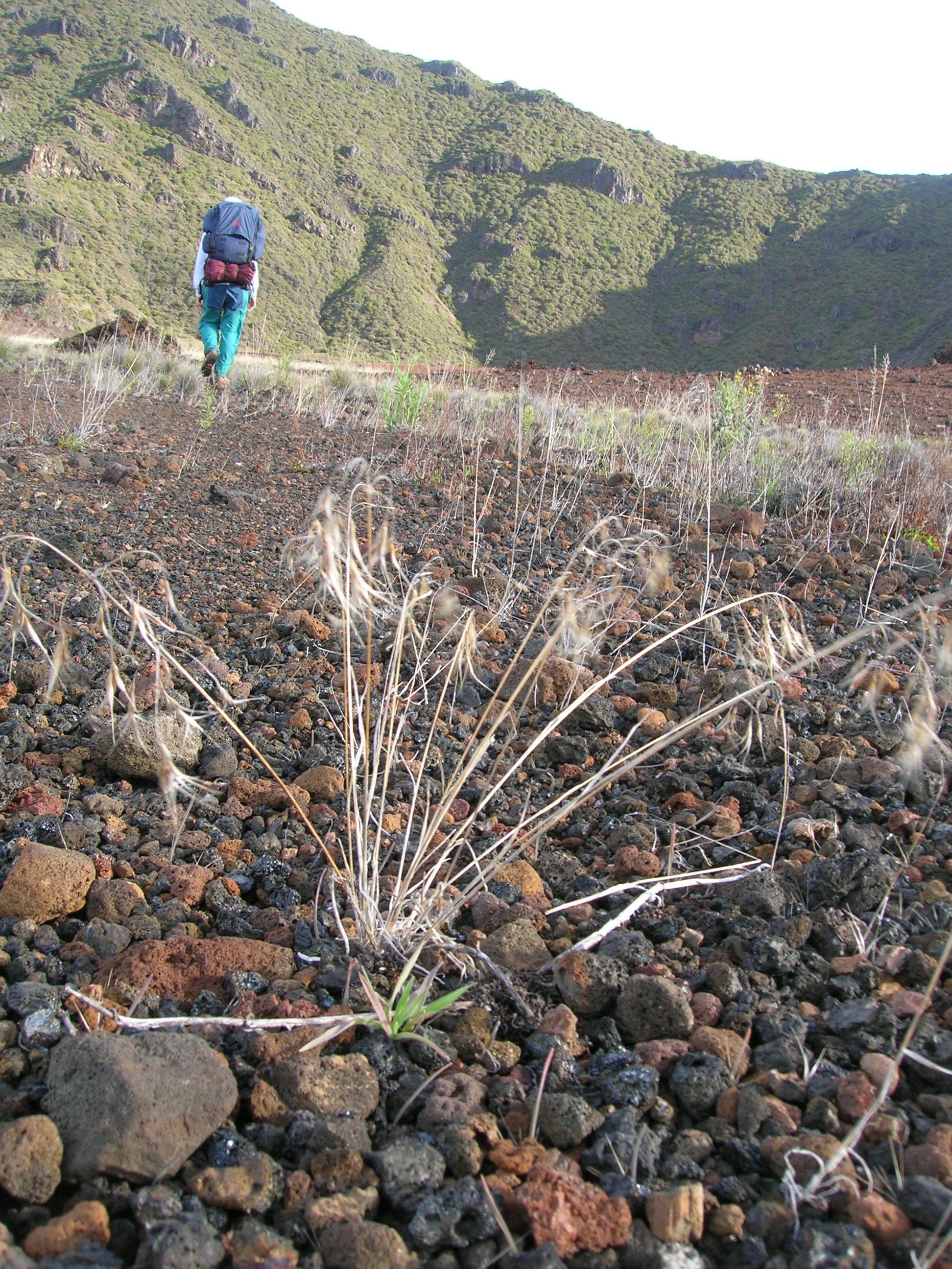 Bromus tectorum (habit). Location: Maui, Deschampsia flats Haleakala National Park